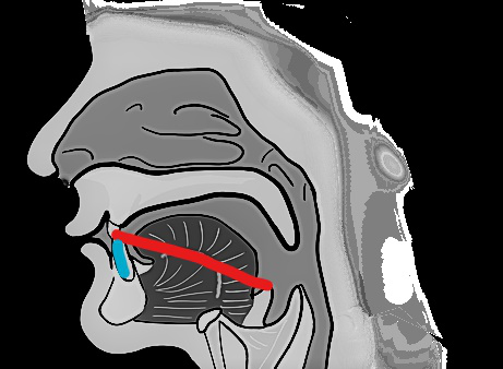 The shape of tongue and teeth when ㅅ is pronounced